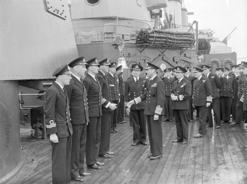 IWM caption : HM King George VI meeting the officers of the cruiser HMS LONDON lined up on deck next to one of the cruiser's 8 inch gun turrets, part of the Home Fleet at Scapa Flow.